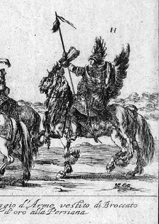 "Deli" horseman. Engraving of Stefano della Bella, 1633.